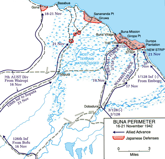 Map of early operations in the battle of Buna-Gona, 16 November 1942 – 21 November 1942.